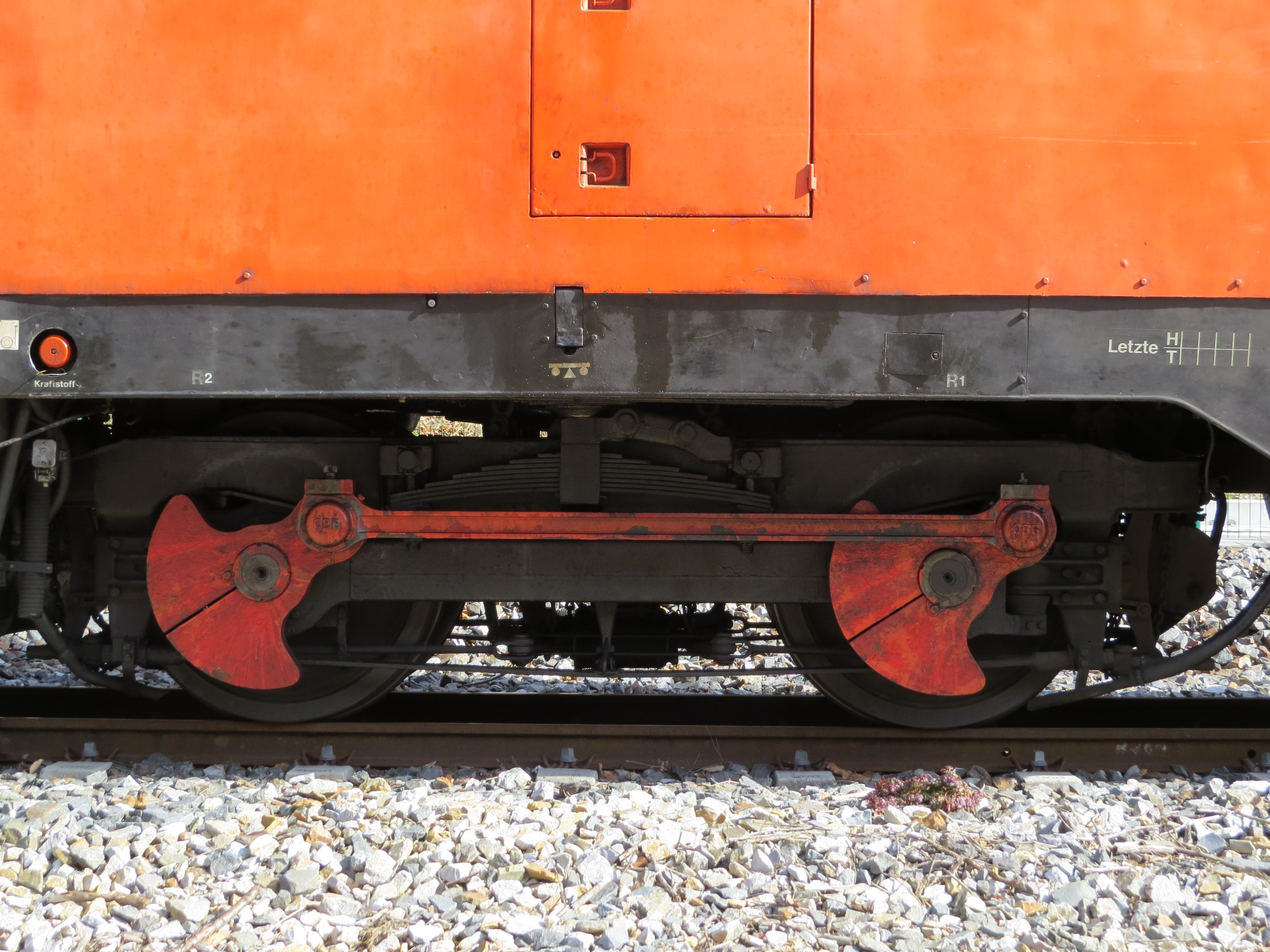 Locomotive connecting rod of NÖVOG V10 (ÖBB 2095 010) at Bahnhof Schwarzenbach an der Pielach, Frankenfels, Austria